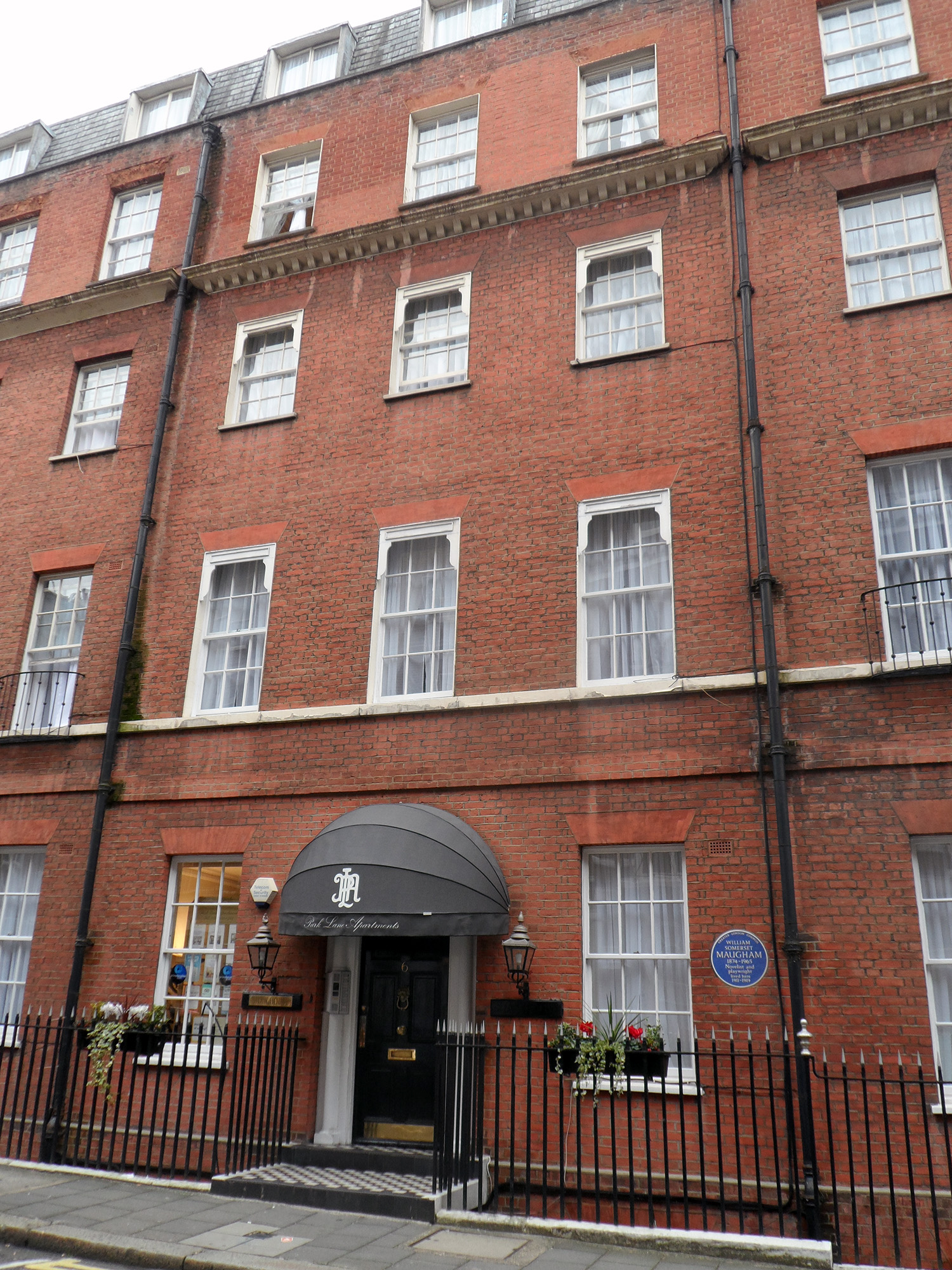 WILLIAM SOMERSET MAUGHAM 1874-1965 Novelist and playwright lived here 1911-1919 - Blue Plaque